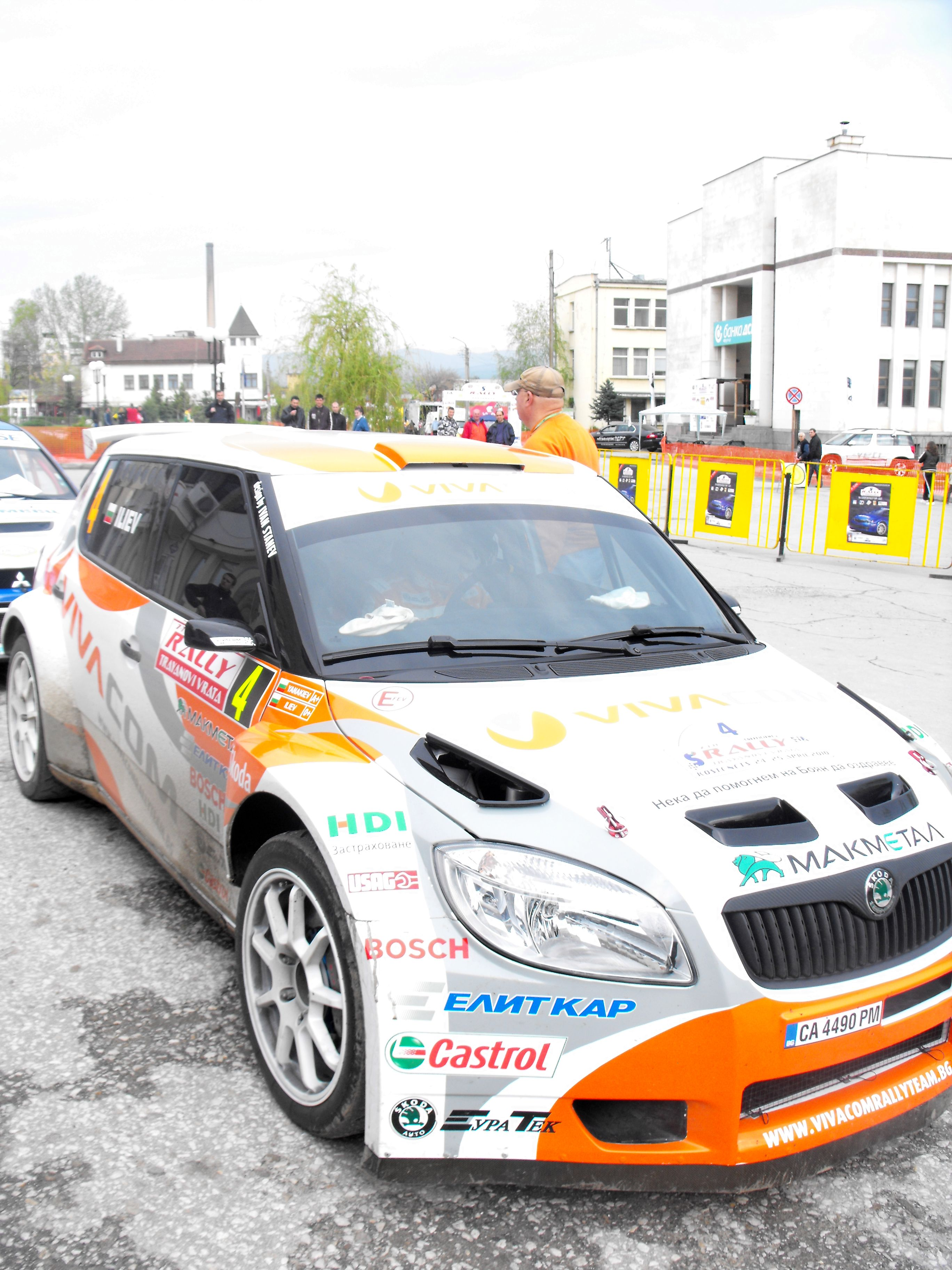 Skoda Fabia S2000 VIVACOM RALLY TEAM BULGARIA